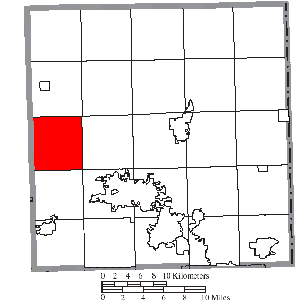 Map of the municipal and township boundaries of Trumbull County, Ohio, United States, as of the 2000 census, with the location of Southington Township highlighted. Township borders are shown only in unincorporated areas in order to differentiate incorporated and unincorporated areas more clearly.